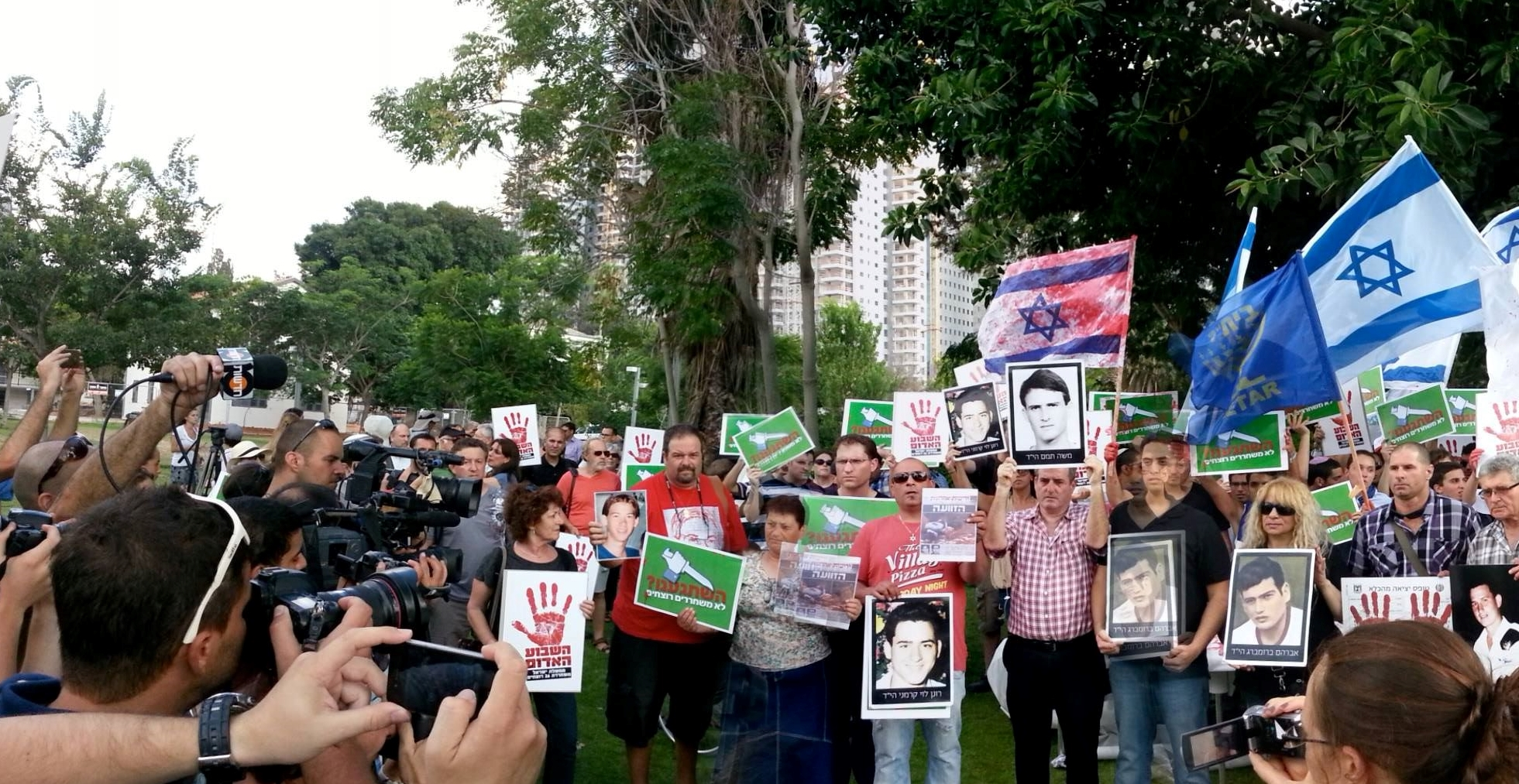 Protesters against prisoner release August 2013